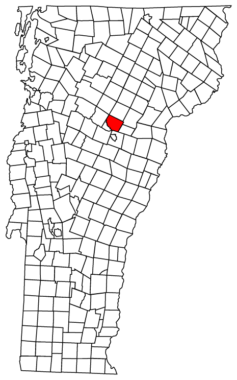 Map of Vermont towns with East Montpelier highlighted